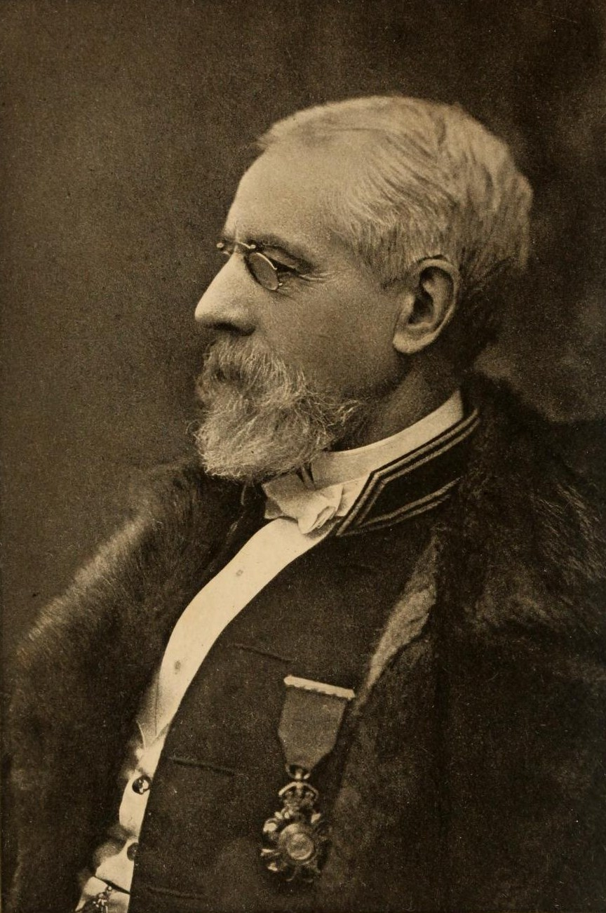 Portrait of Henry George Keene (1826–1915), English historian of India.